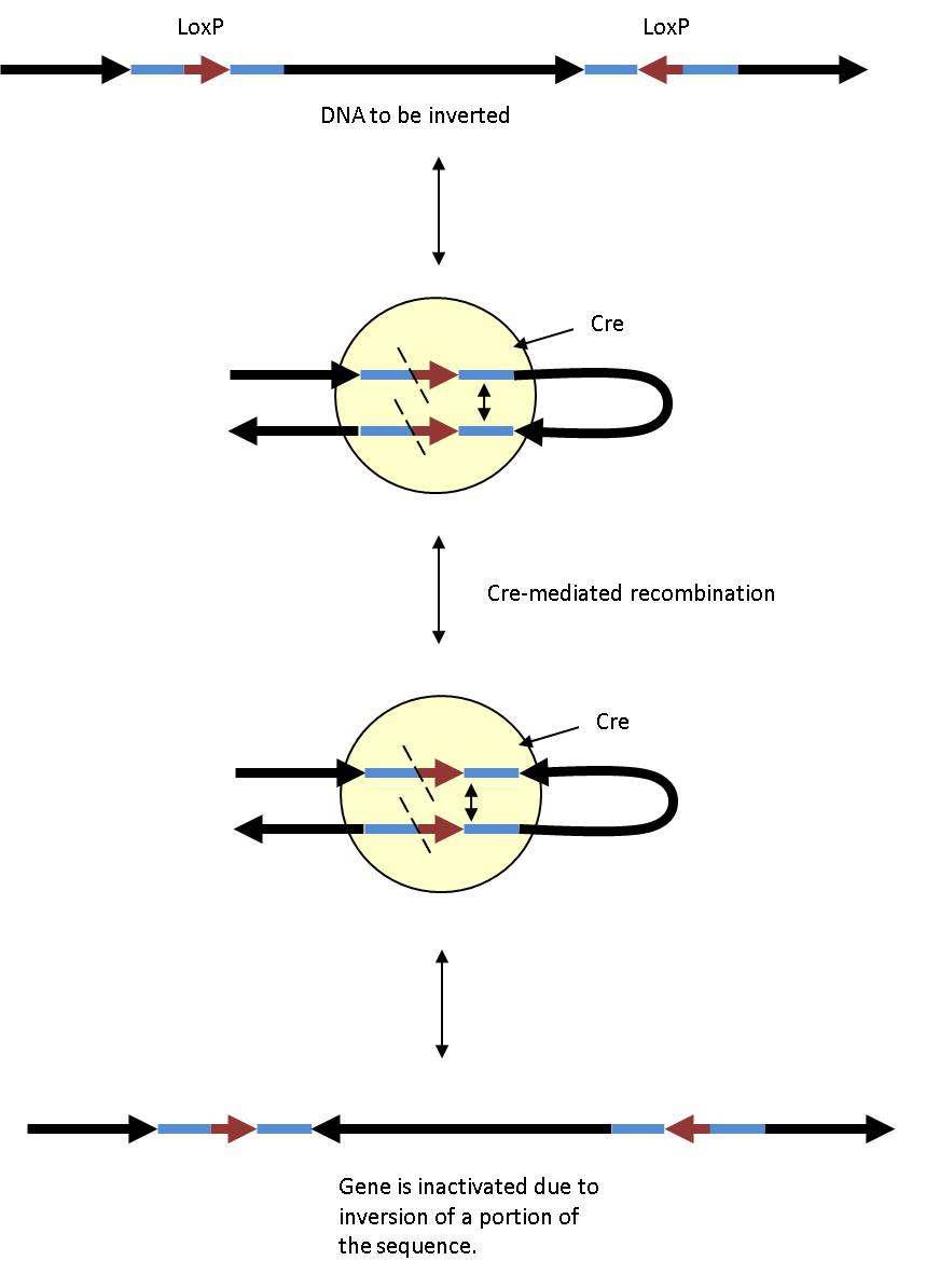 Cre-mediated recombination for antiparallel LoxP sites.